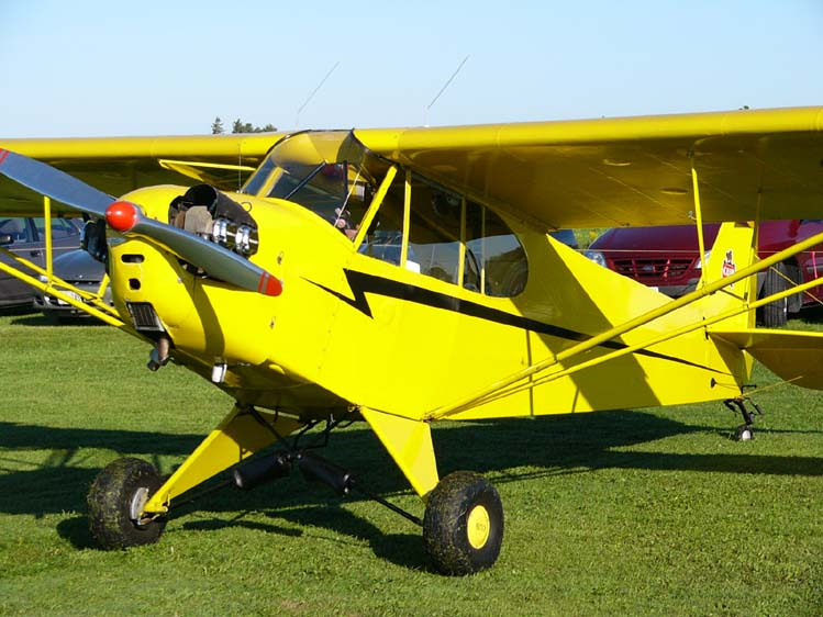 A Piper J-3 Cub at Embrun Ontario August 2004